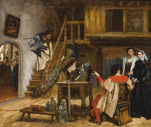 A visit to the taxidermist's atelier. Signed V. Lagye and monogrammed. Oil on panel, 69.9 x 81.9 cm